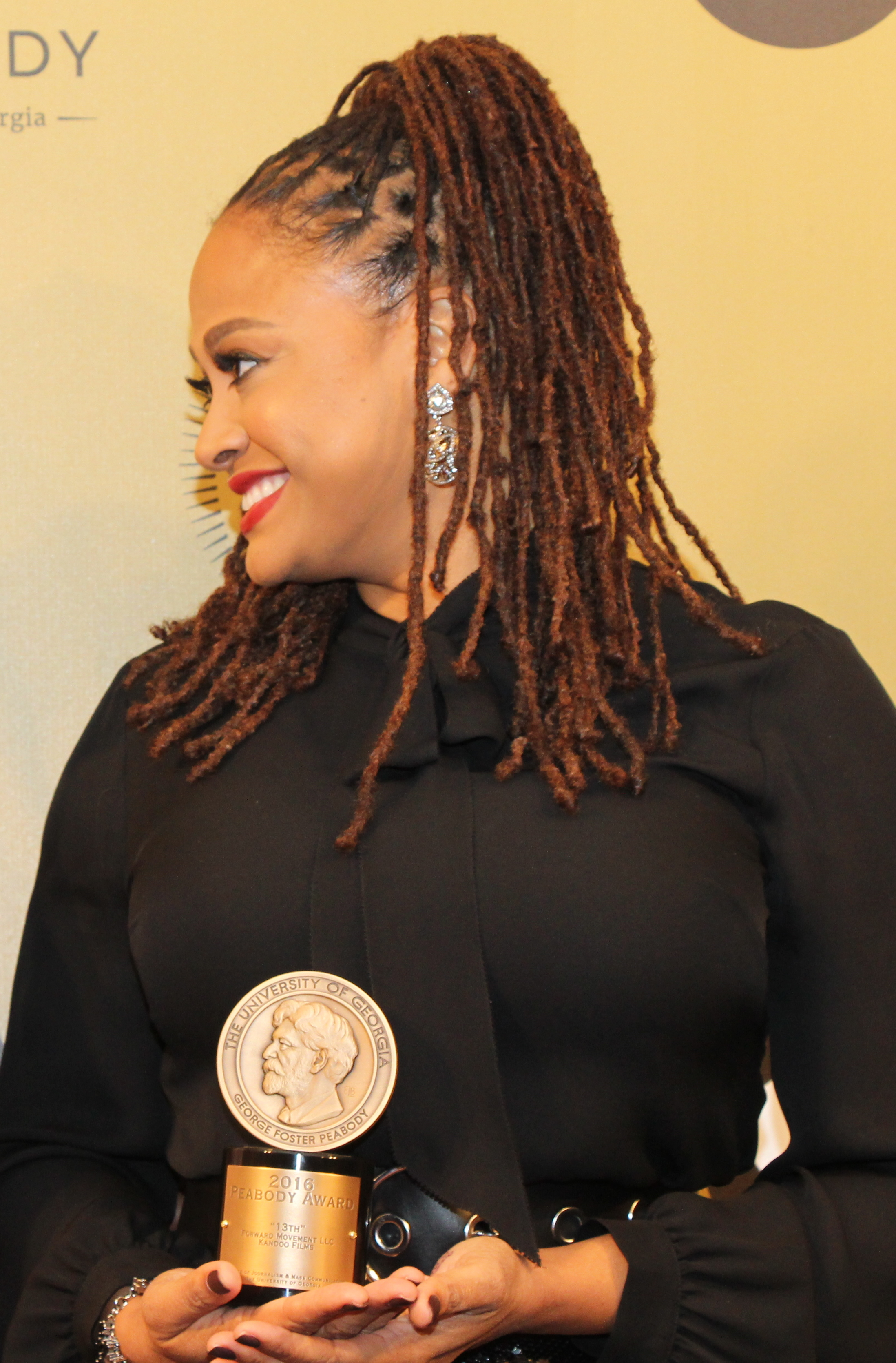 NEW YORK, NY - MAY 20: Lupita Nyong and Ava DuVernay from 13th pose with an award during The 76th Annual Peabody Awards Ceremony at Cipriani, Wall Street on May 20, 2017 in New York City.